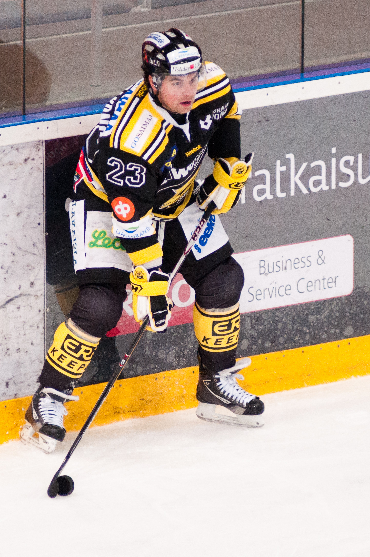 Canadian ice hockey forward Riley Armstrong playing in his debut game for SaiPa Lappeenranta in the Finnish SM-liiga against Lahti Pelicans.